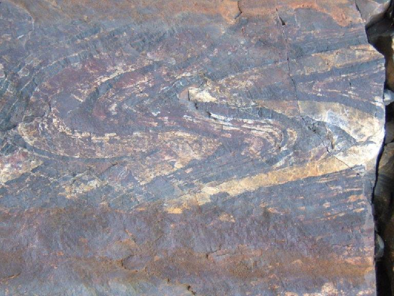 Folded banded iron formation exposed along Highway 11 in Temagami, Ontario, Canada.